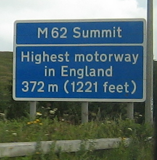 Sign on M62 motorway (UK). "M62 Summit. Highest motoray in England. 372 m (1221 feet)". Going from West to East.